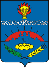 Belyov (Tula oblast), coat of arms (1990)